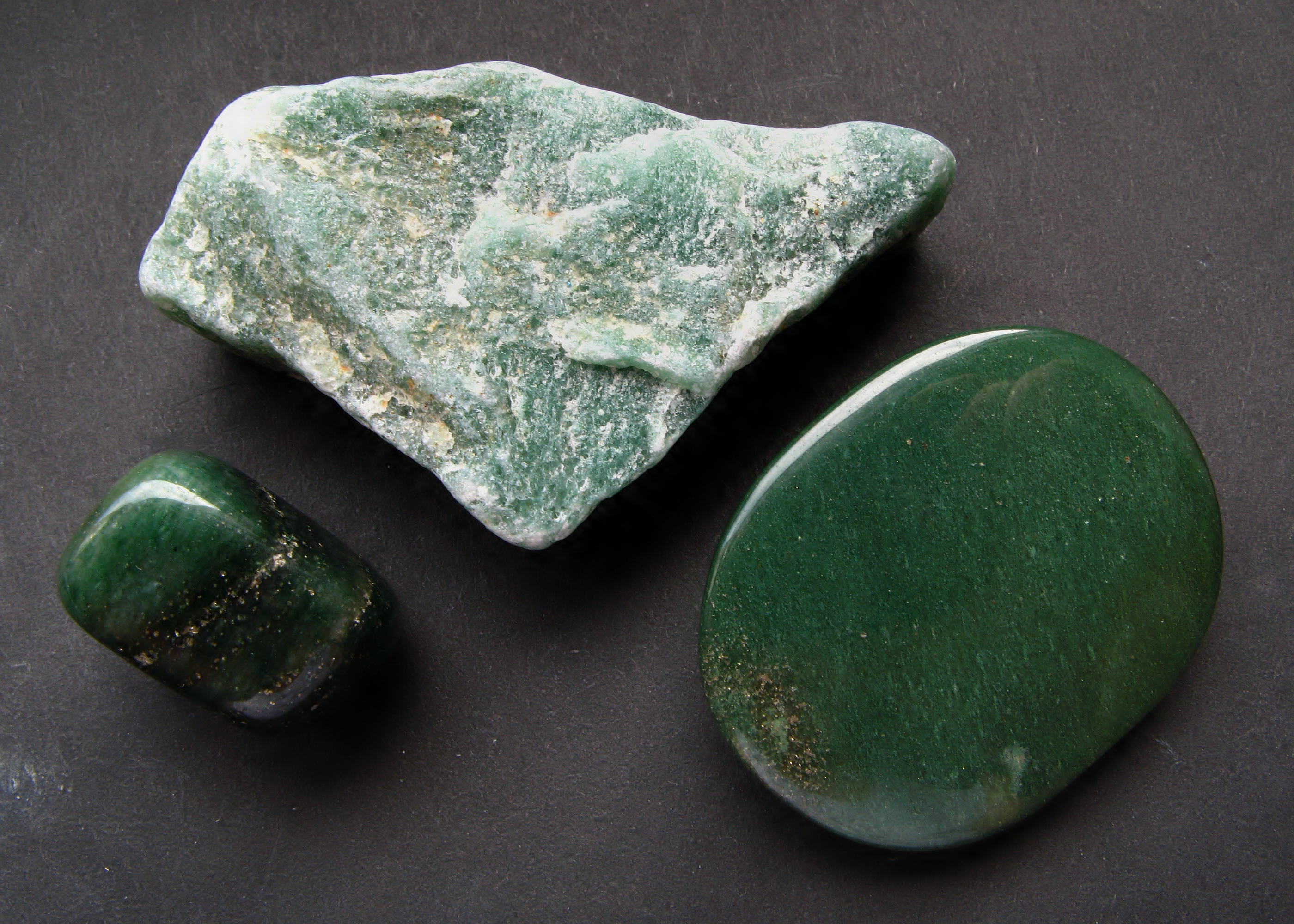 Quartz-variety Aventurine - rawstone (middle), trumble polished stone (left), Cabochon (right)